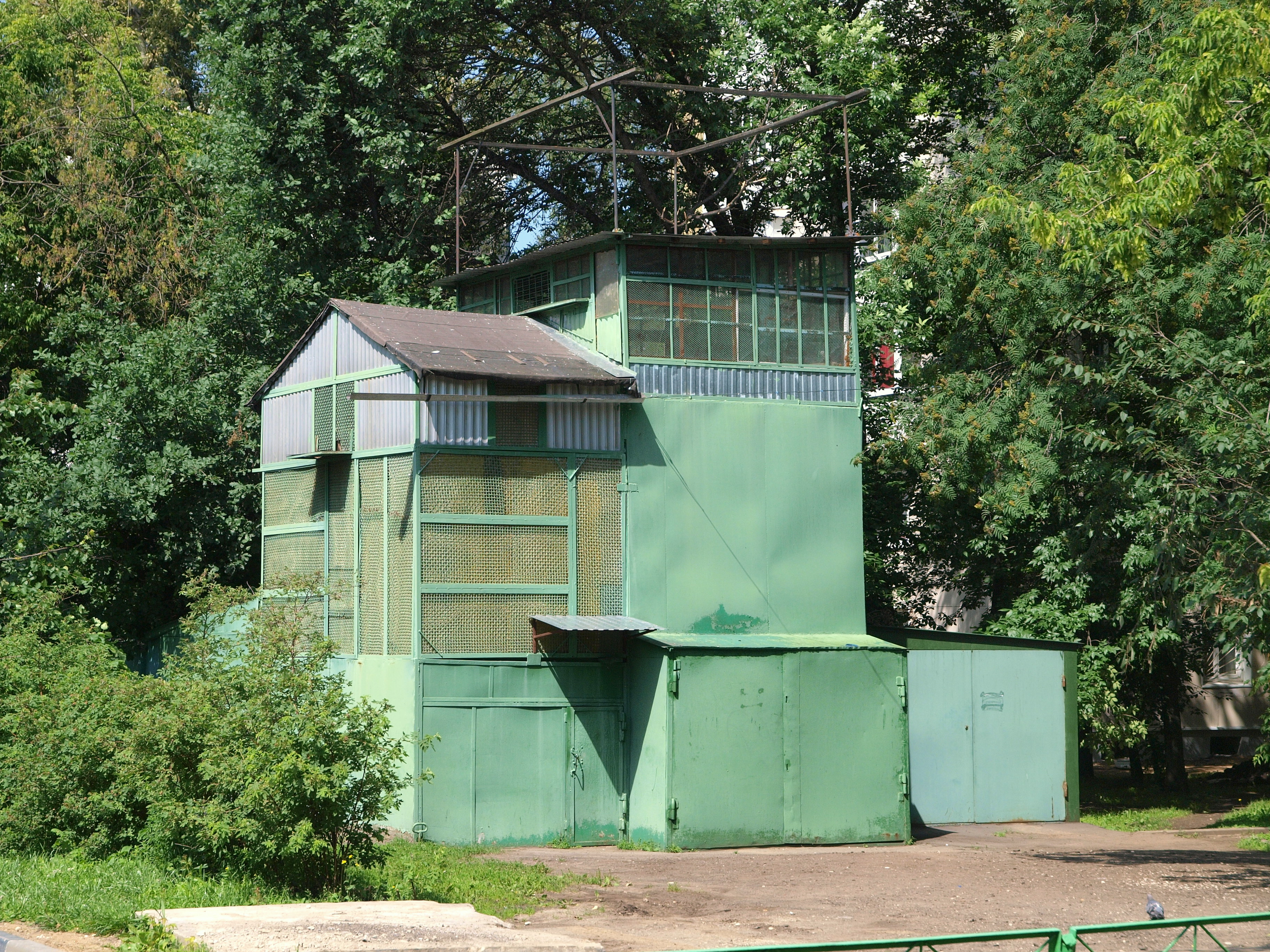 Dovecote on Izmailovsky Prospect, Moscow.